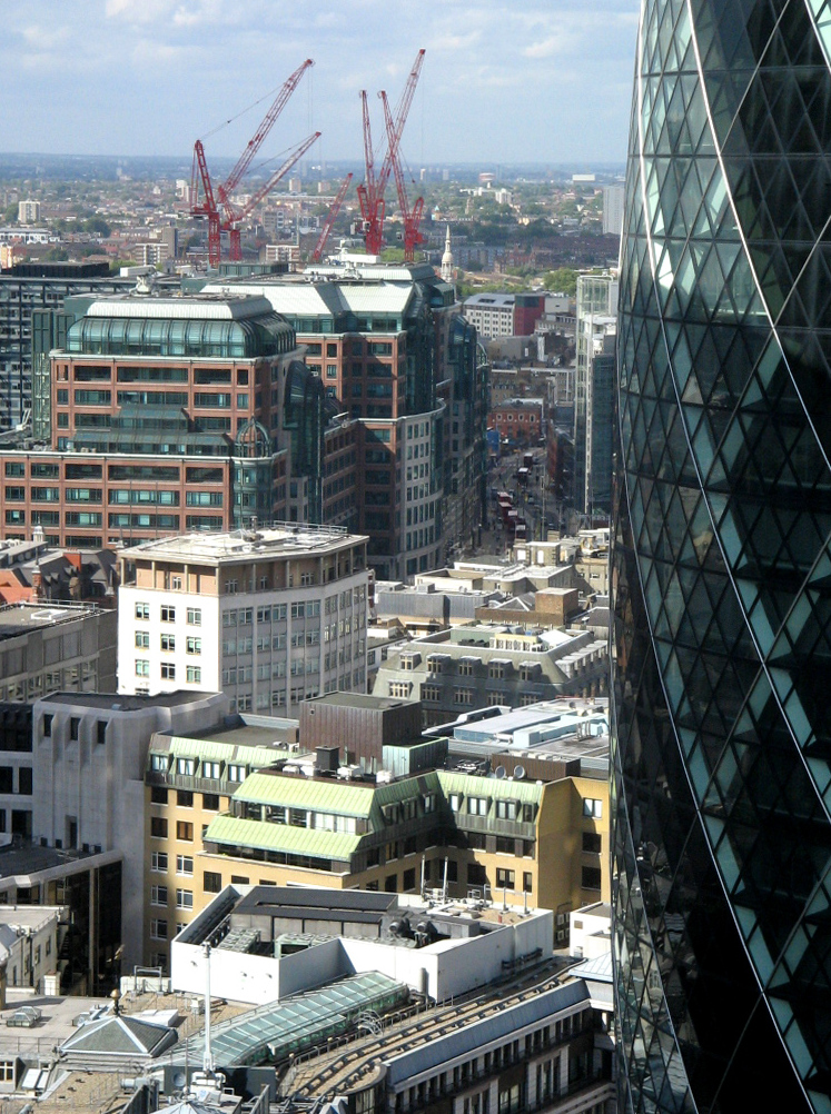 The Broadgate Centre in London's financial district, viewed from the Willis Building.